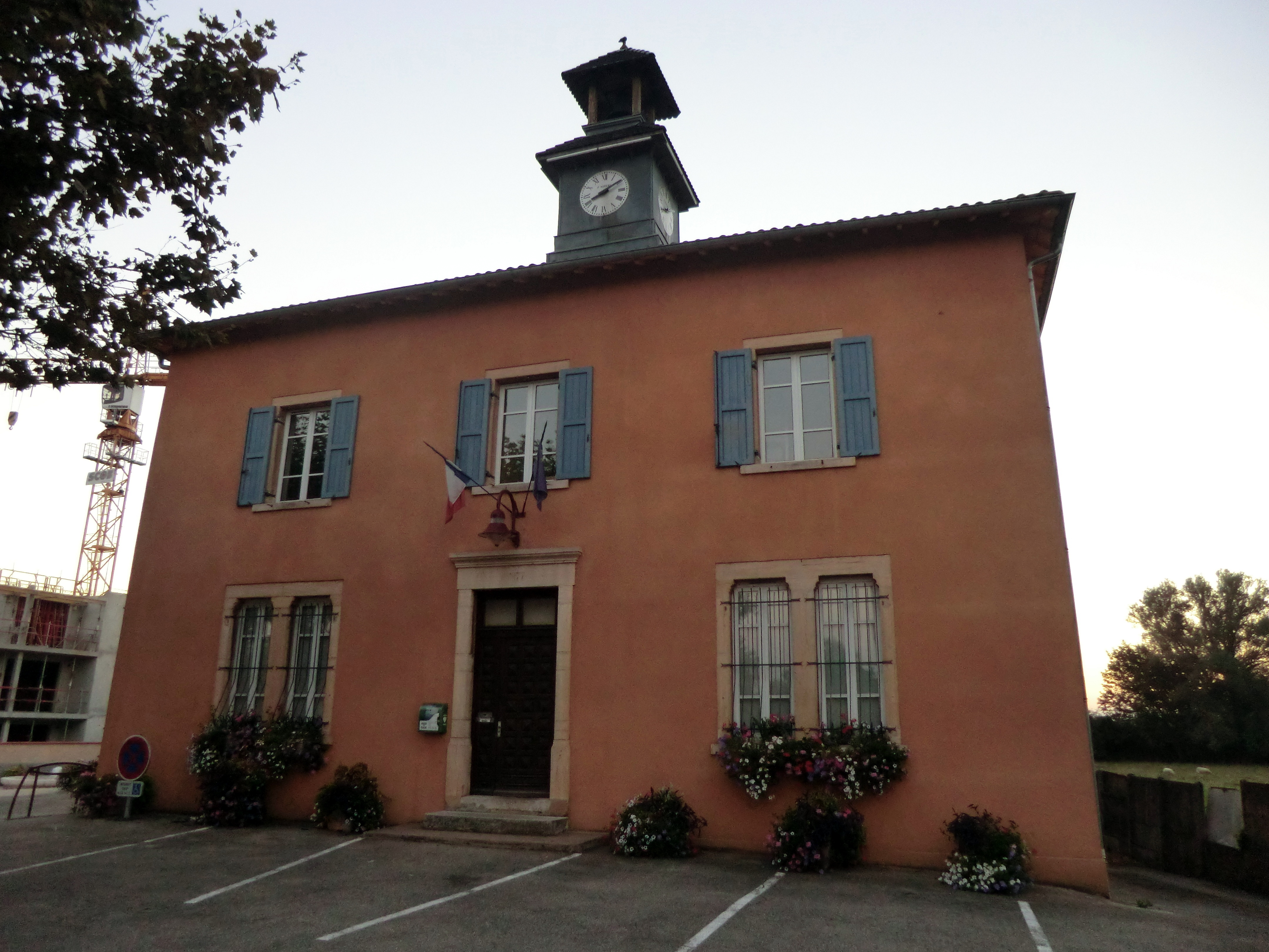 Town hall of Saint-André-de-Corcy.